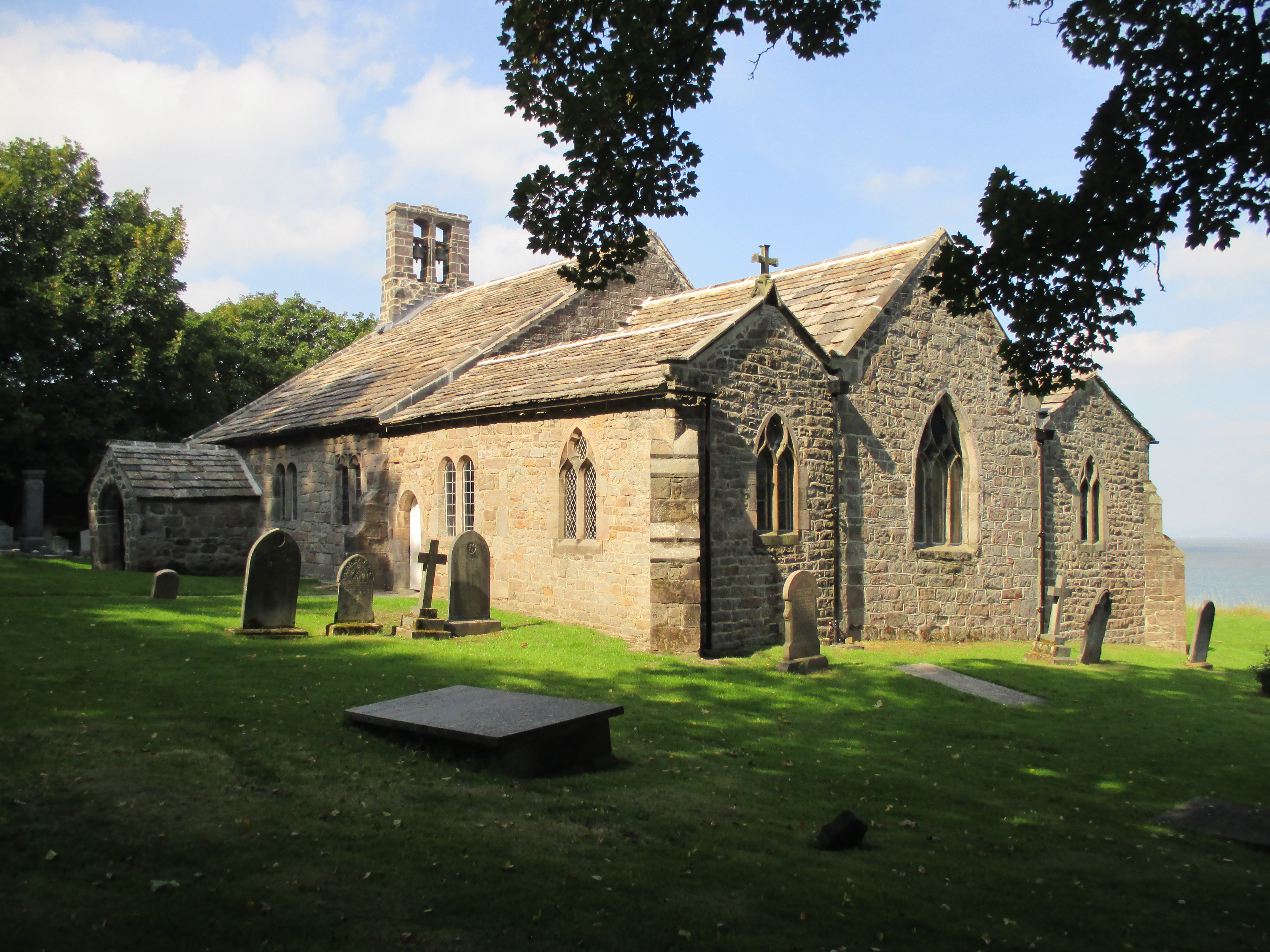 St. Peter's Church, Heysham, photographed from the south-east.